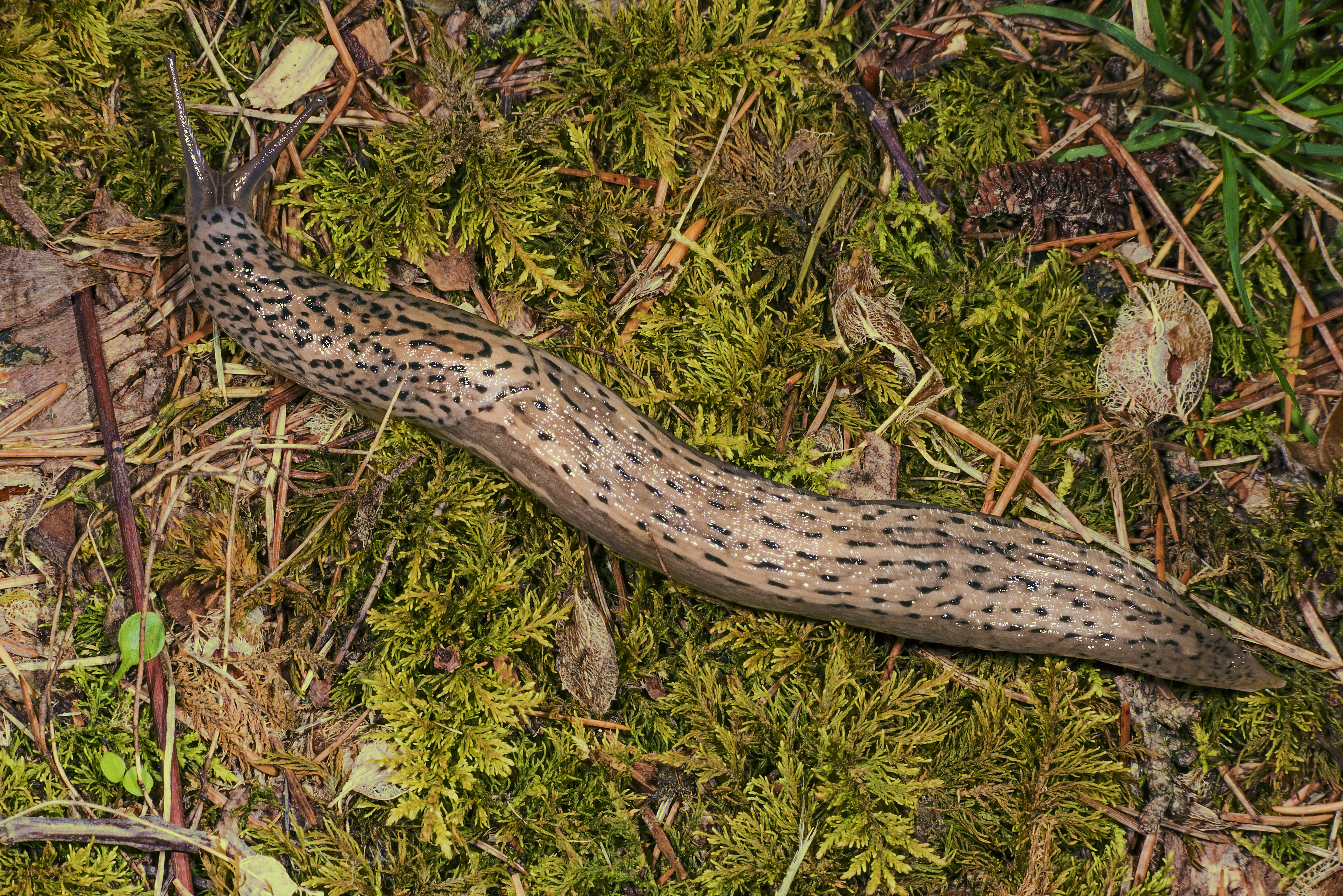 Great slug, in a forest at night